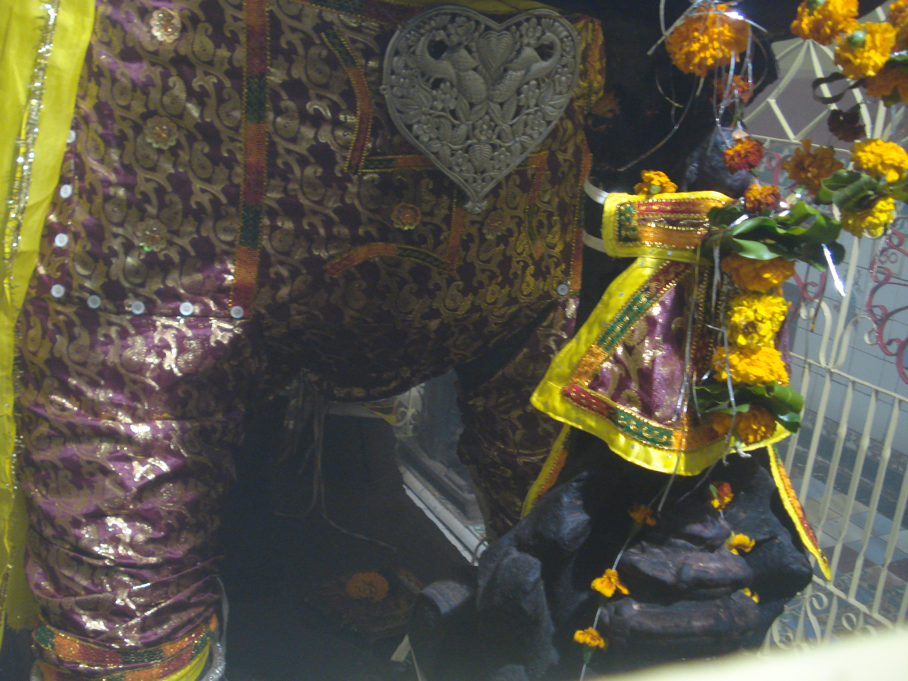 This is Adi Narayan (Shree Vishnu) statue sitting in Yogasana. Statue has 4 hands.